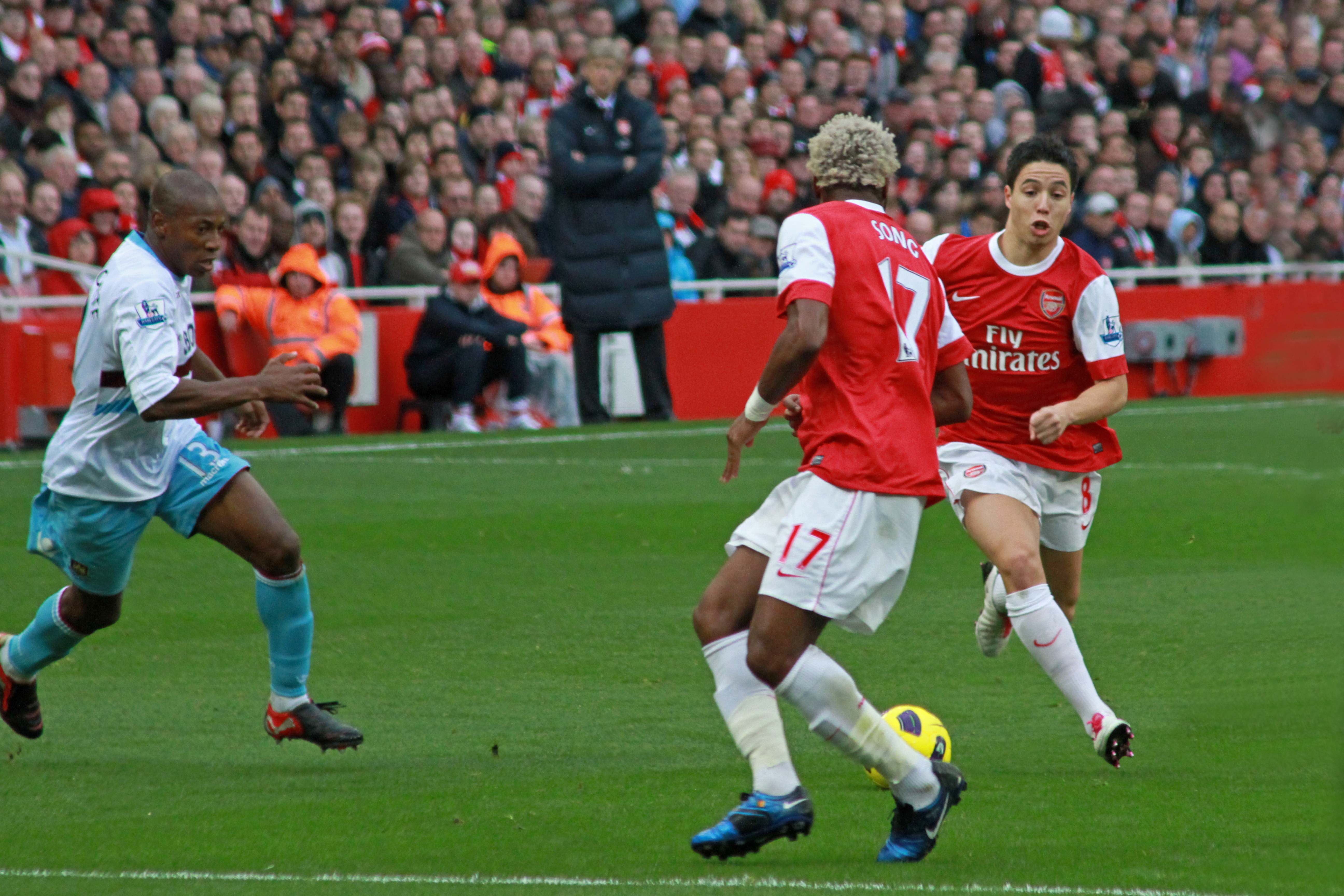 Arsenal v West Ham United at the Emirates Stadium on 30 October 2010. Arsenal won 1-0 with a late 88minute goal by Alex Song.